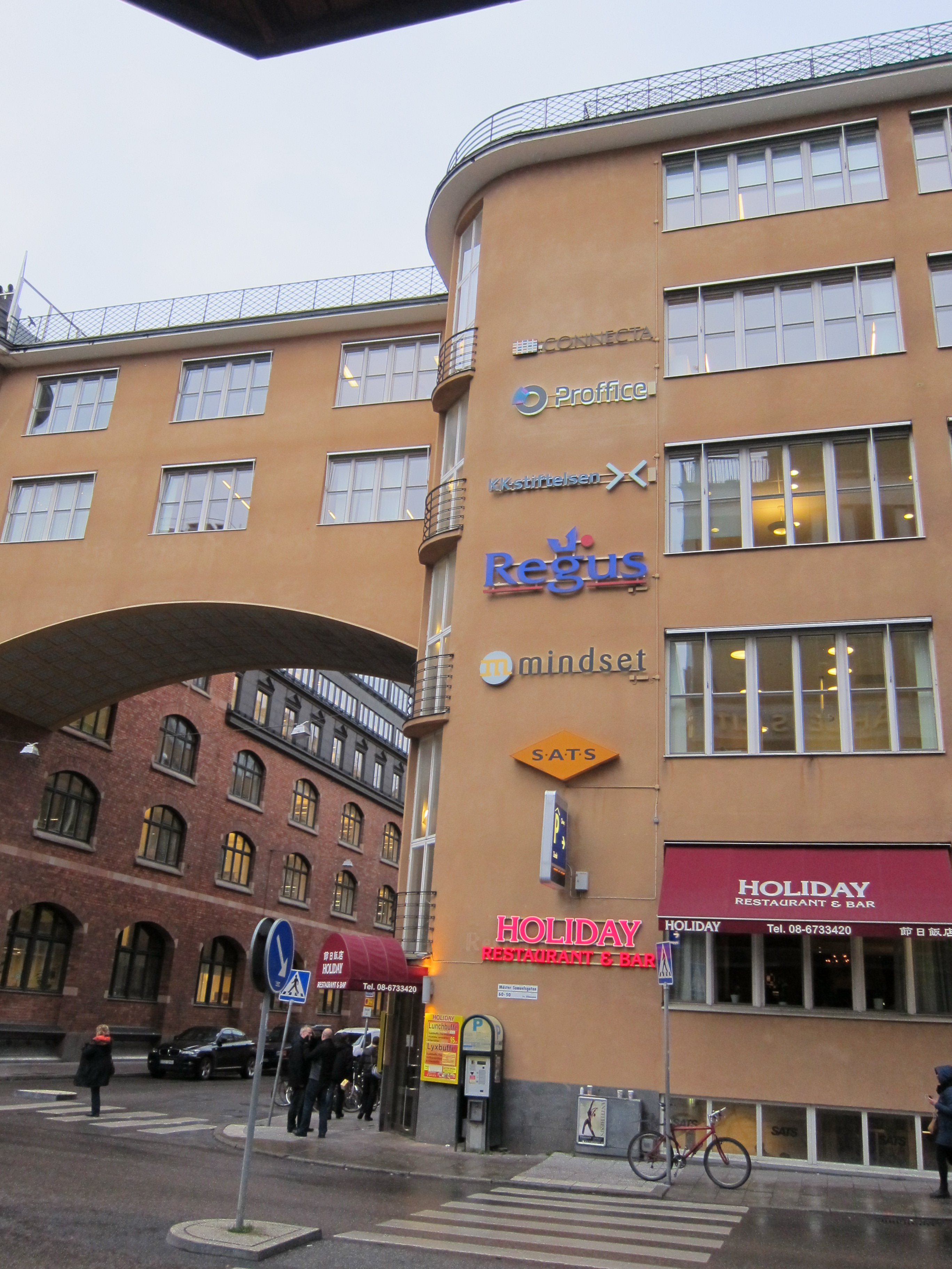 Proffice premises at Mäster Samuelsgatan 60 in Stockholm, Sweden.